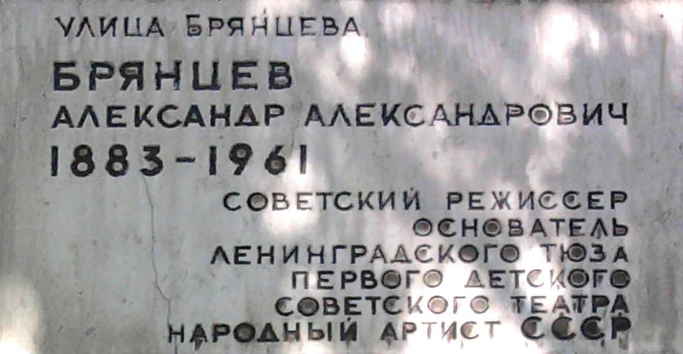 The memorial label on the wall of bilding #20, Bryanzeva street, Sankt-Petersburg